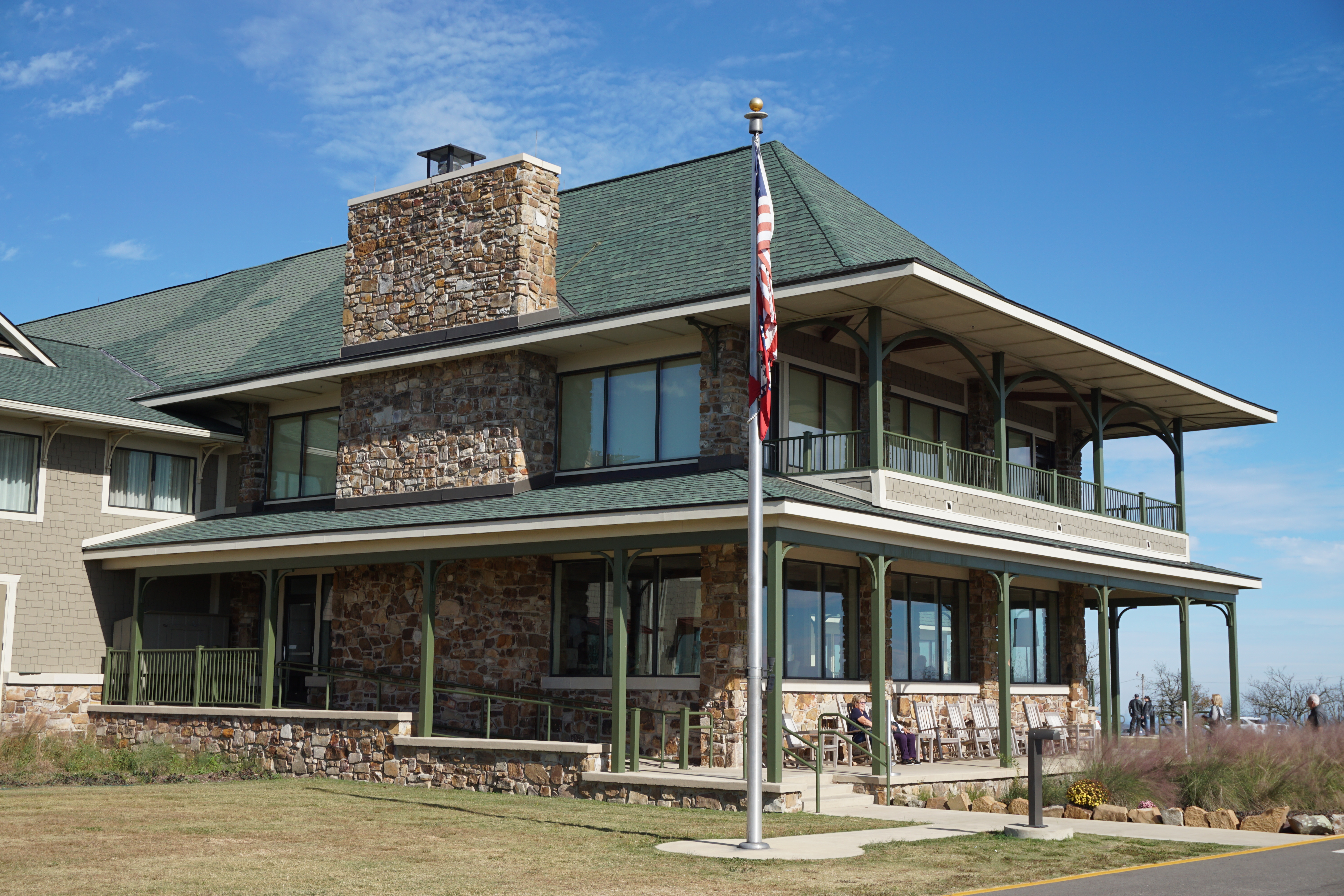 Queen Wilhelmina State Park Lodge at Queen Wilhelmina State Park on the Talimena National Scenic Byway in Arkansas (United States).